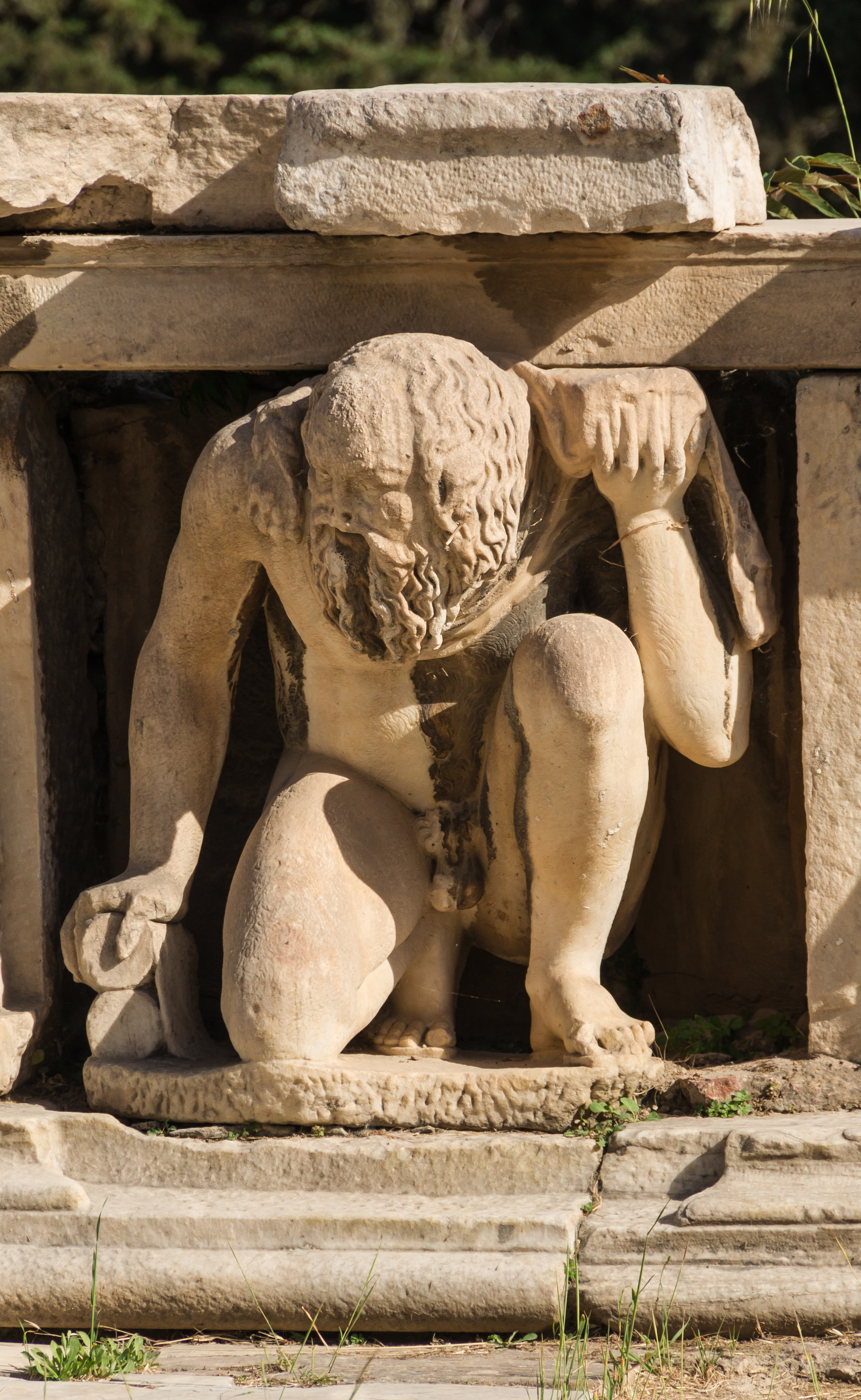 An Atlante/Silenus (?), Theater of Dionysus, Acropolis, Athens, Greece.